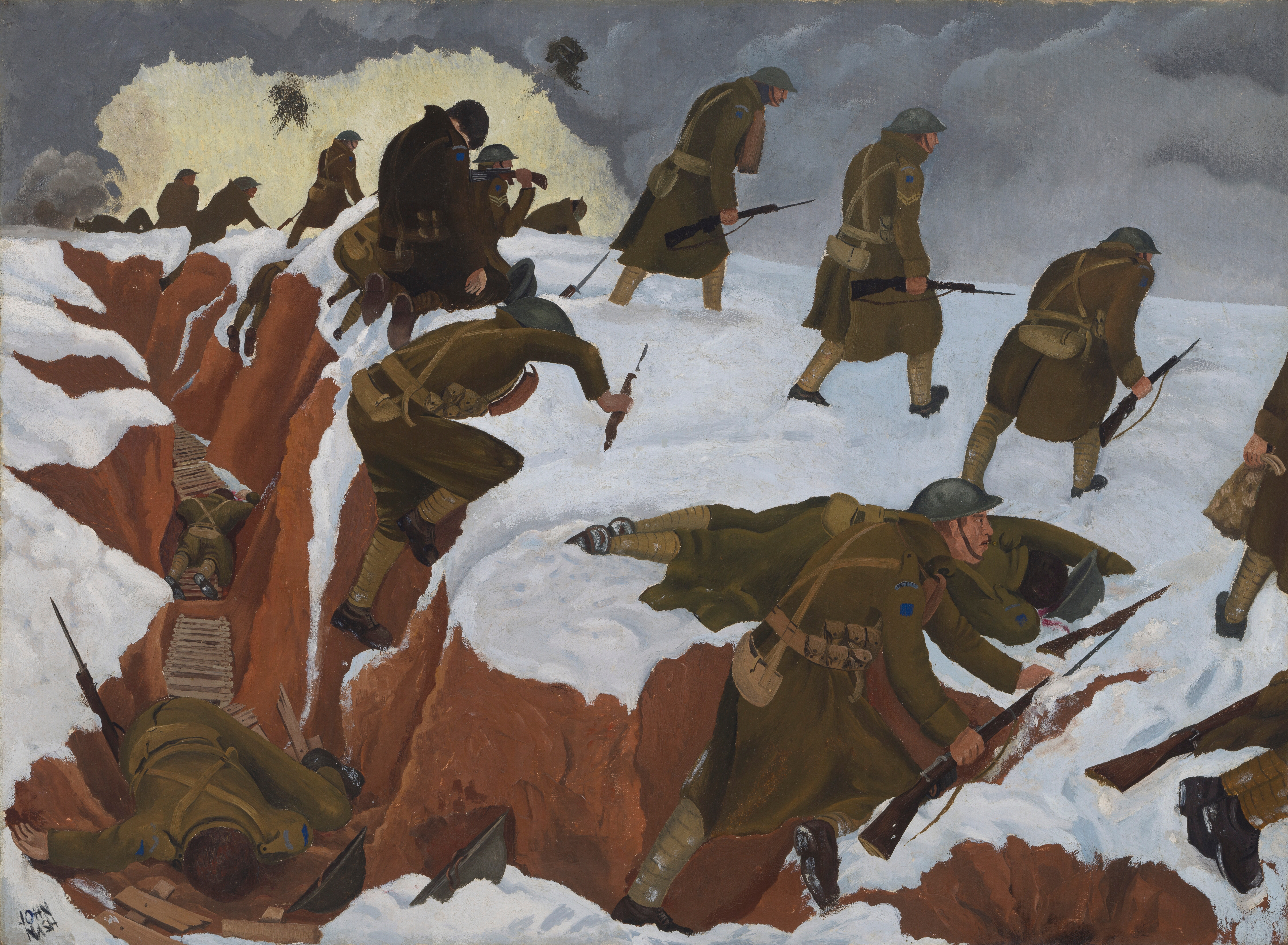 over the Top'. 1st Artists' Rifles at Marcoing, 30th December 1917 image: a landscape in the snow. On the left, a red earth trench lined with duckboards stretches away from the viewer. A group of soldiers clamber from the trench, going 'over the top'. Two lie dead in the trench and another has fallen lying face down in the snow. Those who have survived plod forward towards the right without looking back. They walk beneath a grey, stormy sky, with clouds from shell and gunfire in the distance.